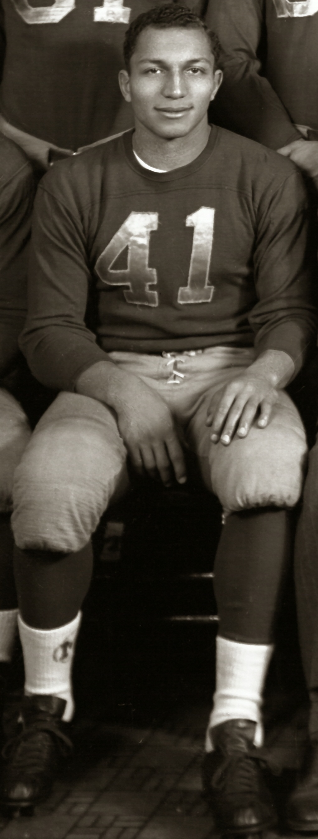 Photograph of Gene Derricotte cropped from team portrait of the 1948 Michigan Wolverines football team